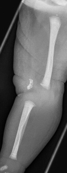 X-Ray image, Neonate with congenital hyperextended knee plus Zellweger-Syndrome